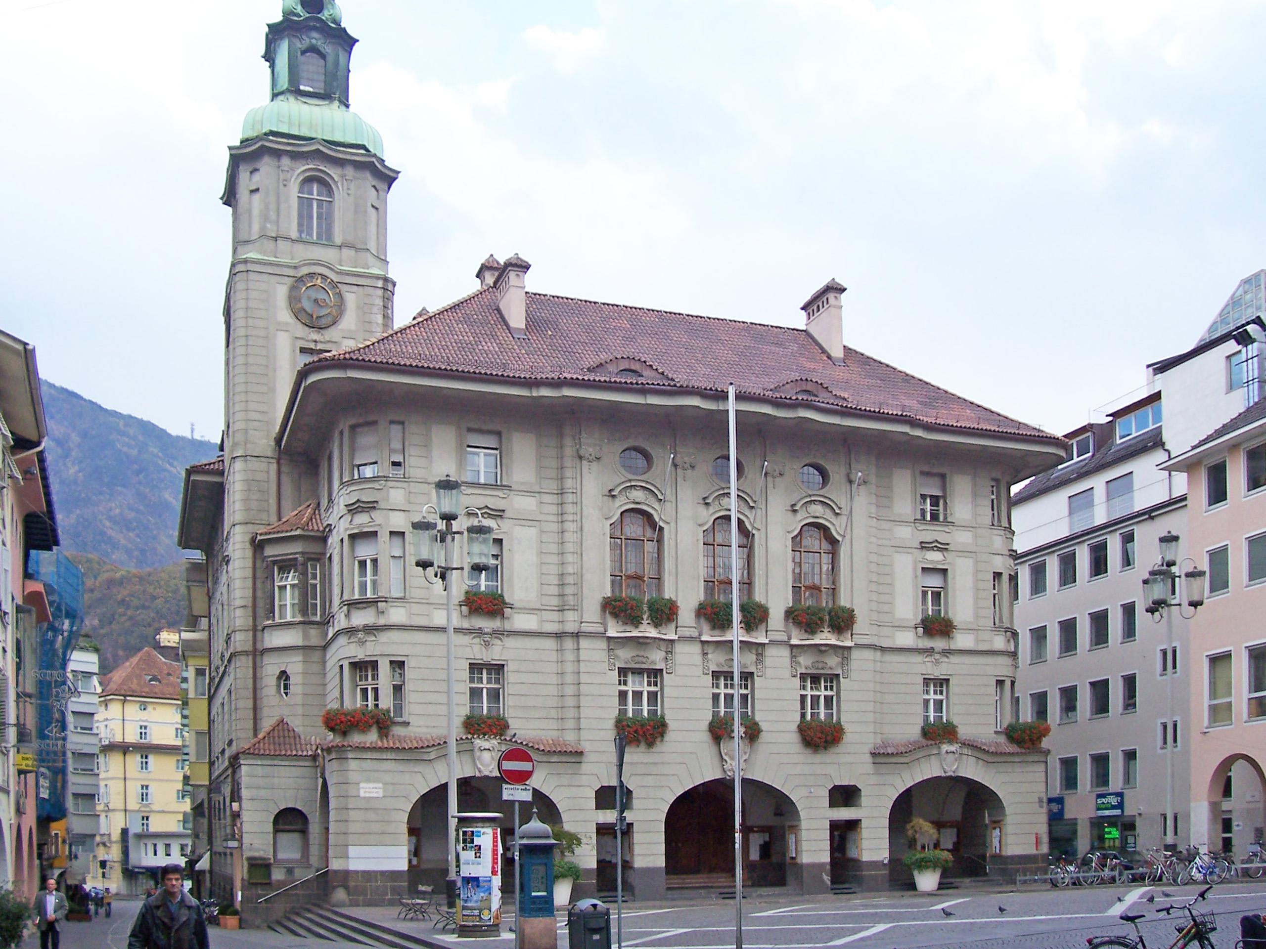 The old entrance of the city hall, Bolzano, South Tyrol, Italy